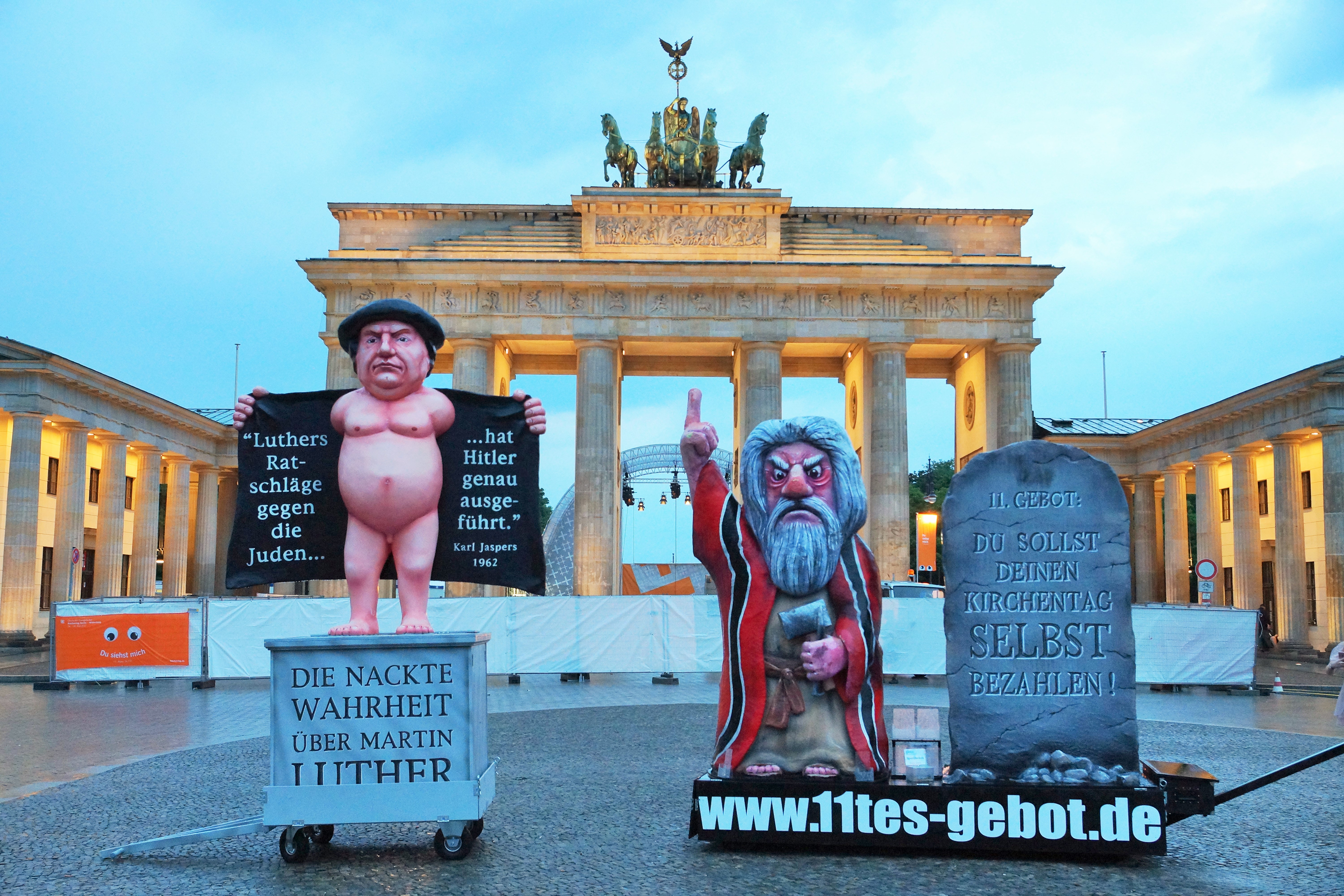 Criticism of church and churchday finance with "Moses 11. commandment" and "the naked Luther" sculptures. On the Moses sculpture stands: "Thou shalt pay thy church-day self". At the 36th Protestant Church Day 2017 in Berlin, Germany